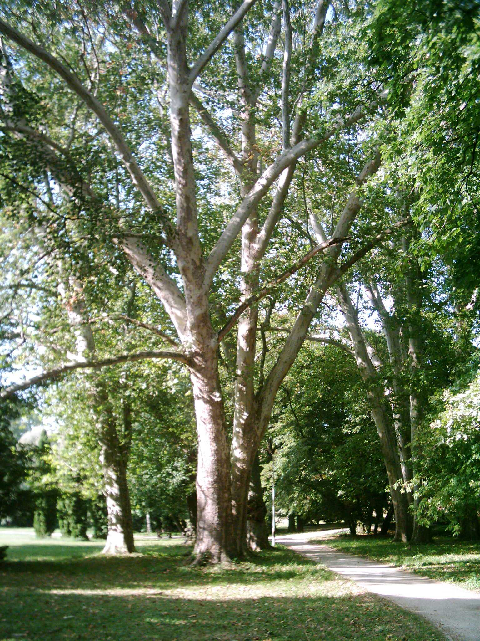 Platanus in Želiezovce, Slovakia